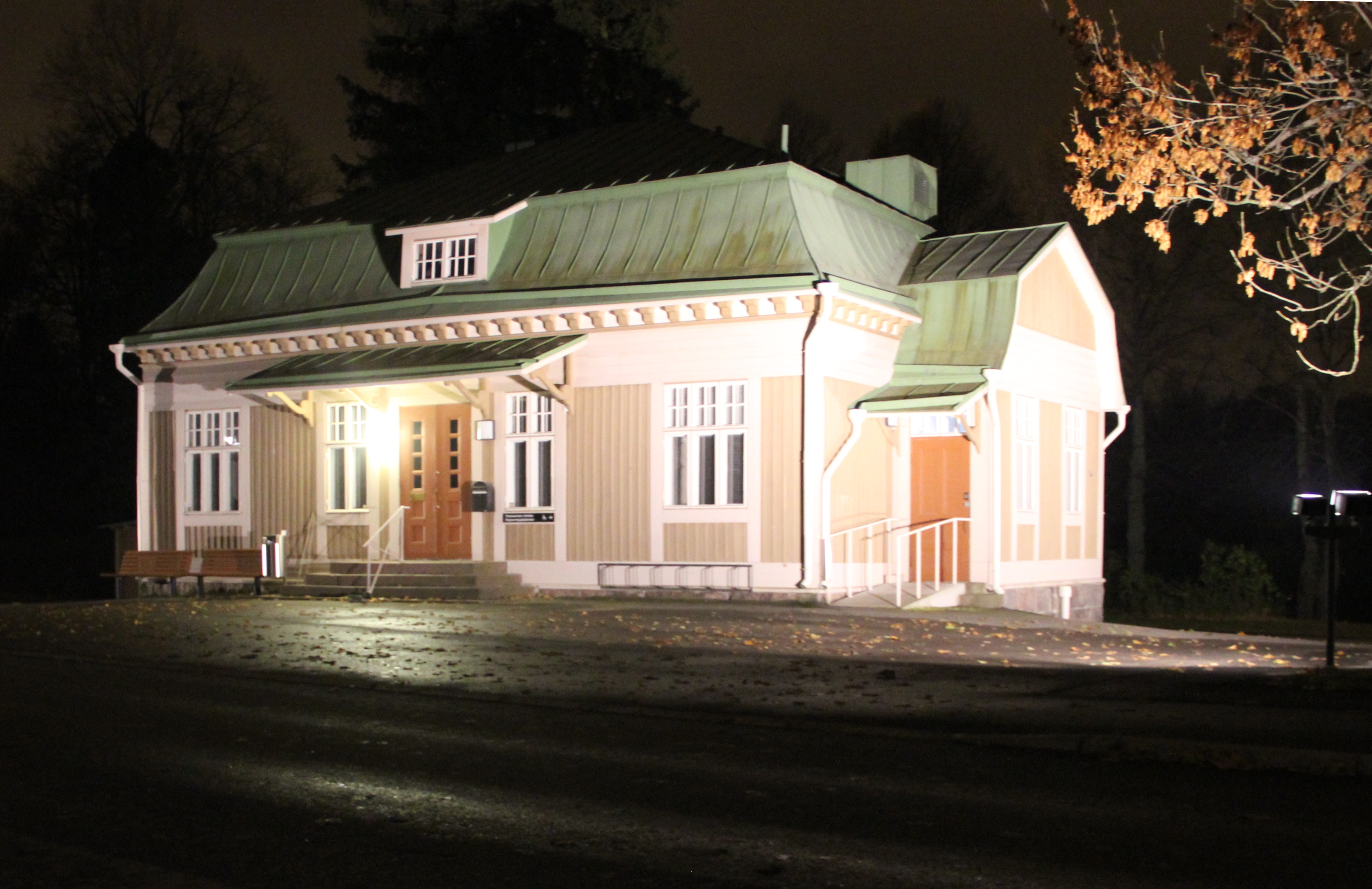 Former train station in Malmi cemetery